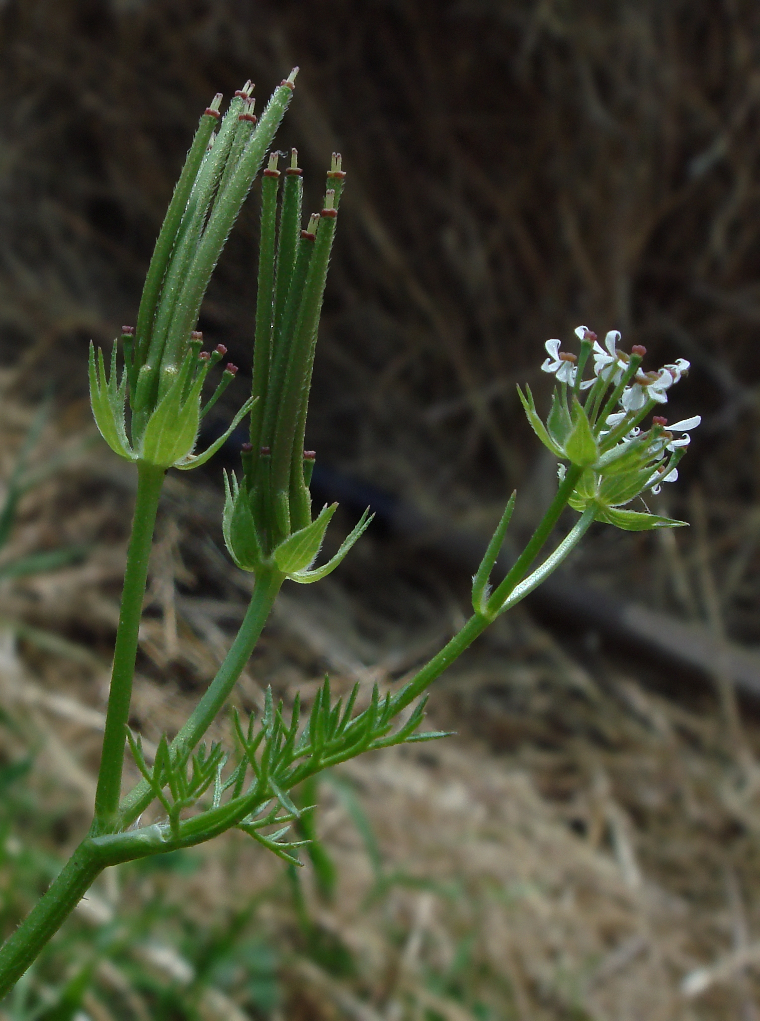 Scandix pecten-veneris (Shepherd's Needle), umbels in flowering and fruiting stage, showing hairy fruits with basal, seed-bearing and long neck, giving the plant its name.